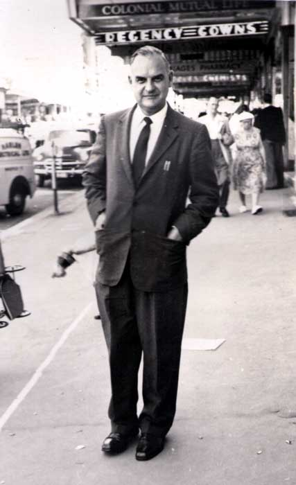 Sir Eward Sayers (doctor)